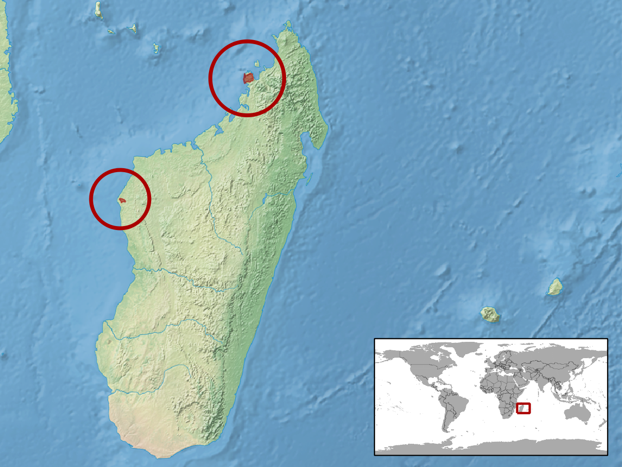 geographic distribution of Phelsuma klemmeri (Native: Madagascar)